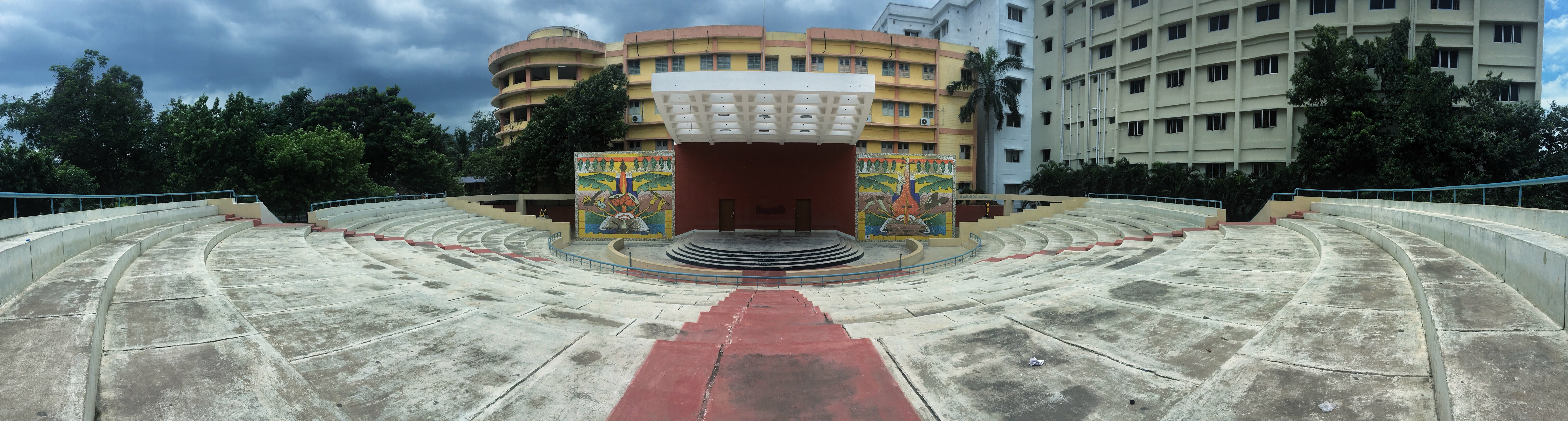 Open Air Auditorium in GITAM, Visakhapatnam campus